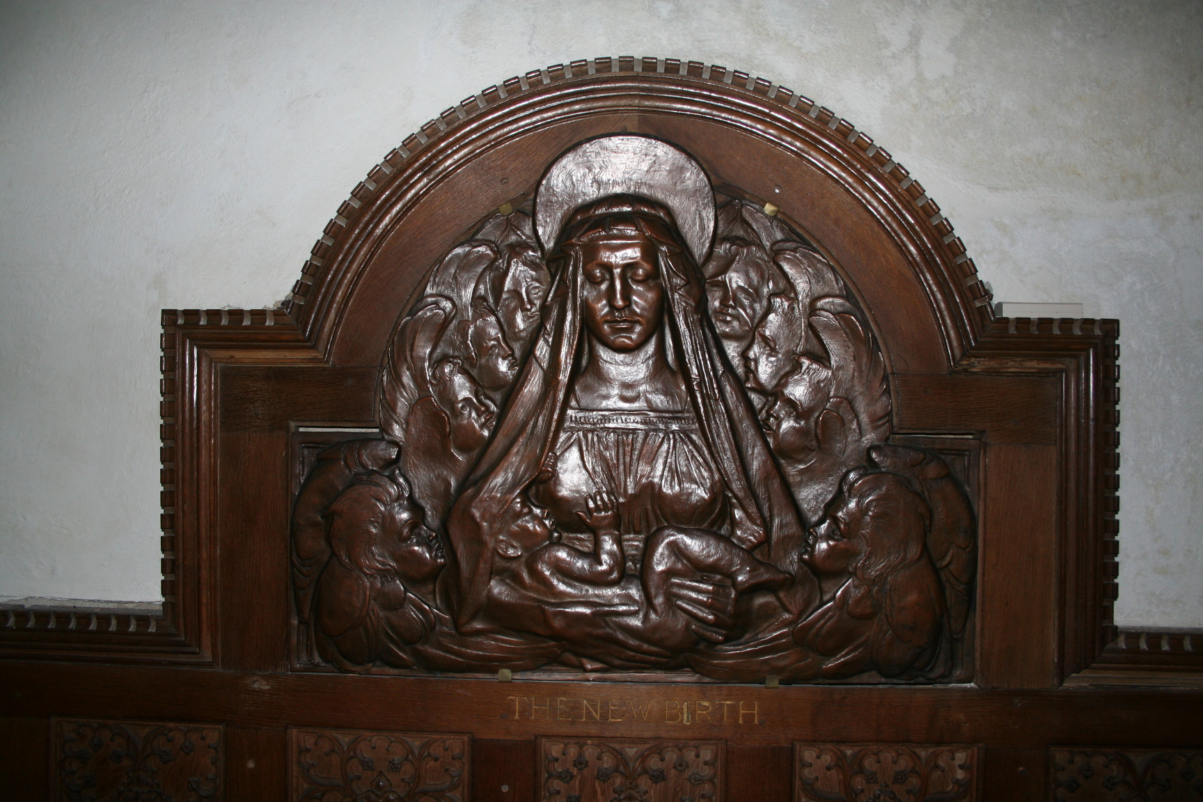 photo by Phil Ellery taken in St Columb Church Talskiddy (talk) 20:57, 26 September 2010 (UTC)